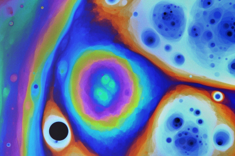 High-contrast magnified-image of coloured interference-pattern in soap-film, (original area is approximately 10mm x 15mm). The black "holes" are areas where the film is very thin, (~10nm), and there is near-total destructive-interference, ( hence they appear black ).